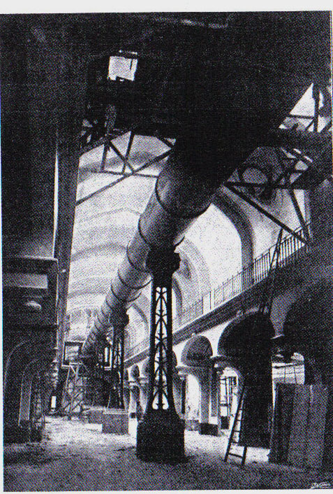 Great Paris Exhibition of 1900 Telescope, as erected, from Strand Magazine, vol. 19 (1900), pp. 612-18